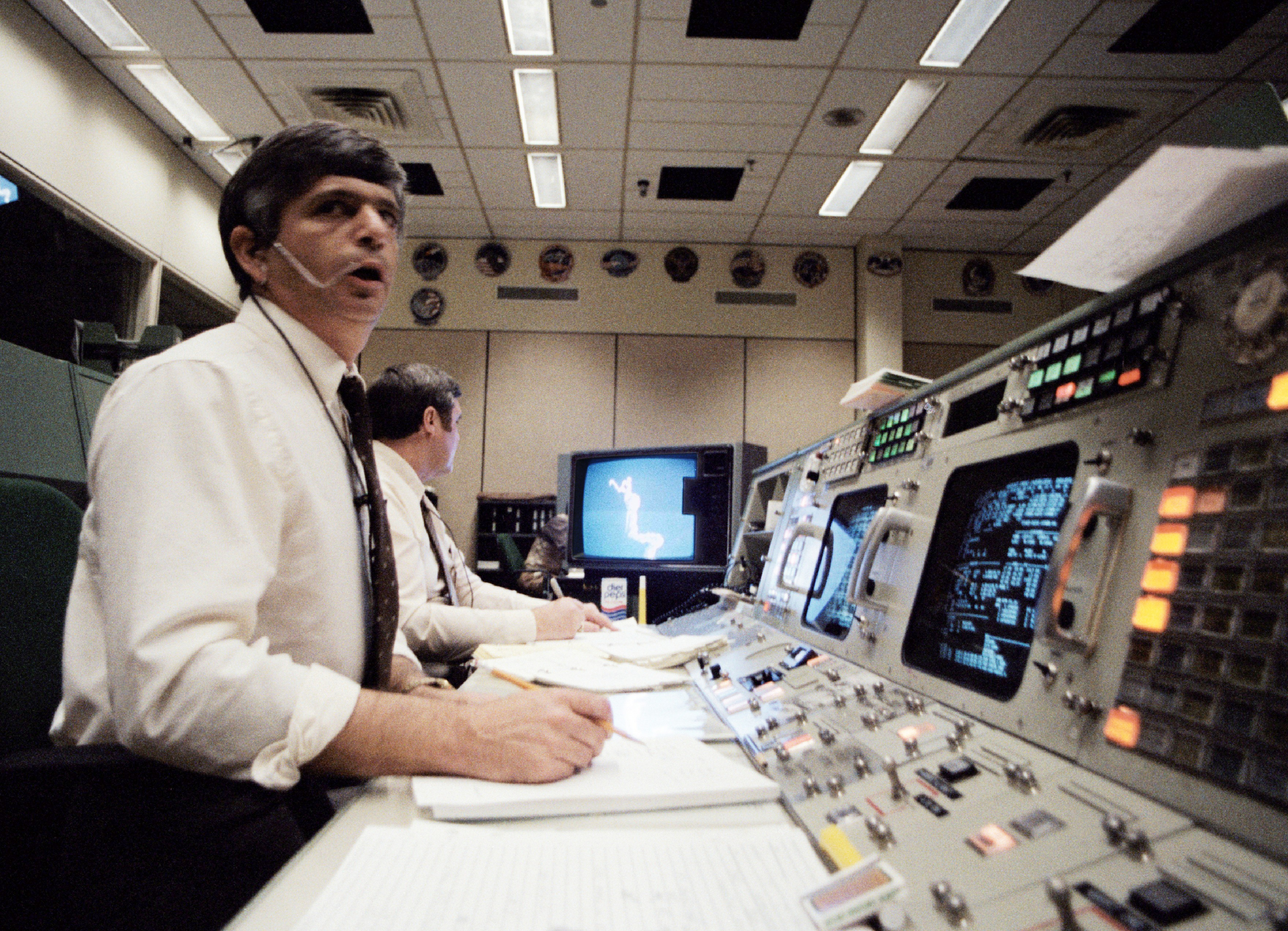 Mission Control following announcement that STS 51-L launch phase was not proceeding nominally: Flight Directors Jay H. Greene (right) and Alan L. (Lee) Briscoe study data on monitors at their consoles in the flight control room (FCR) of JSC Mission Control Center.